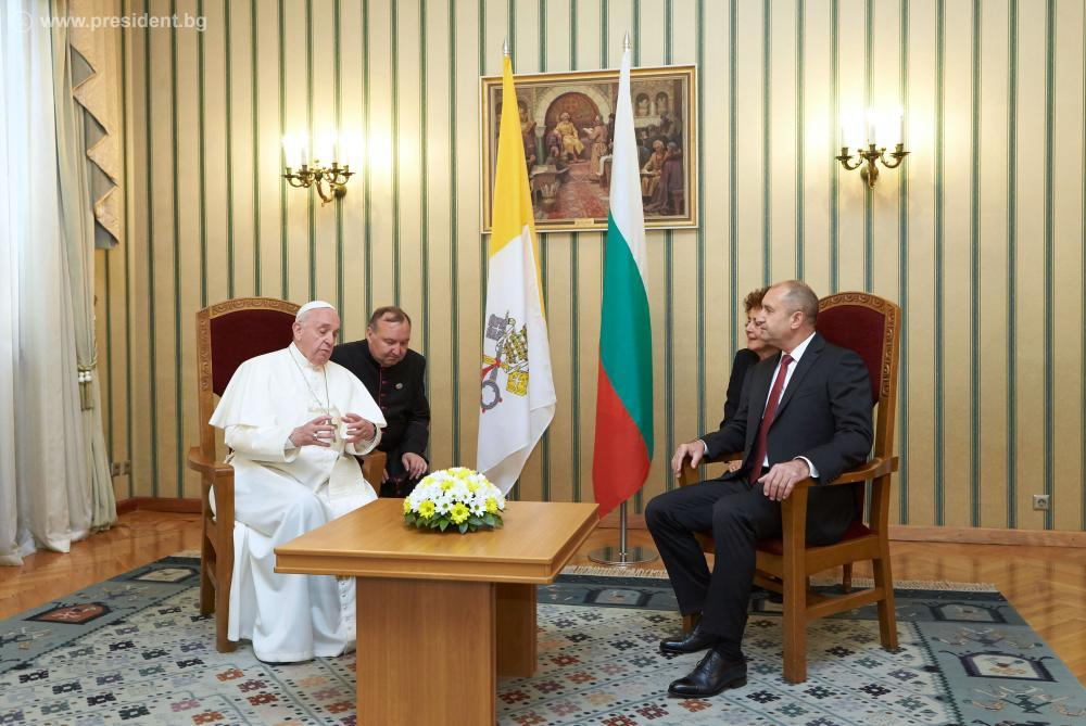 President Rumen Radev Welcomes His Holiness Pope Francis in Bulgaria.